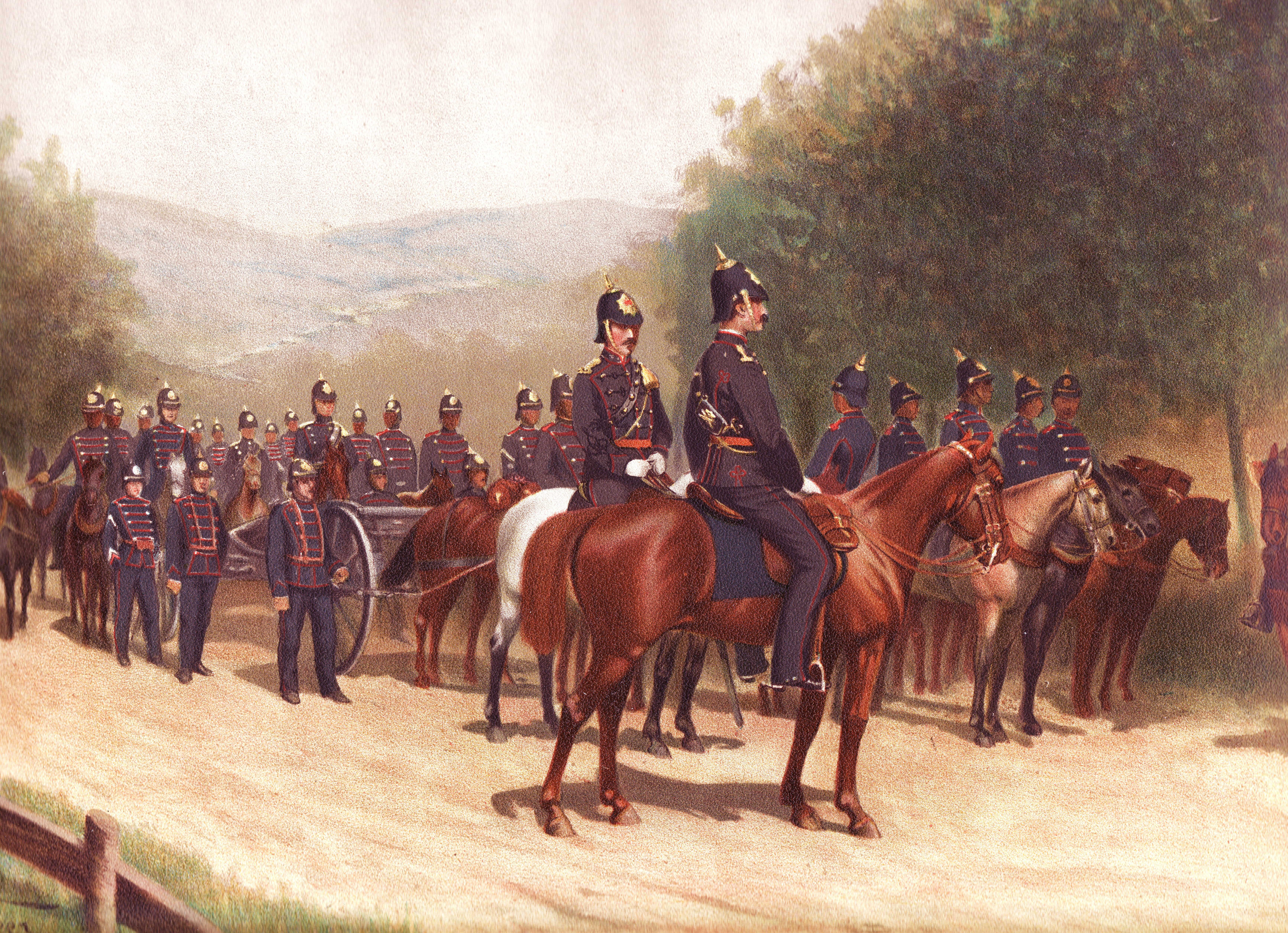 Artillerie van het Oost-Indisch leger, groottenue